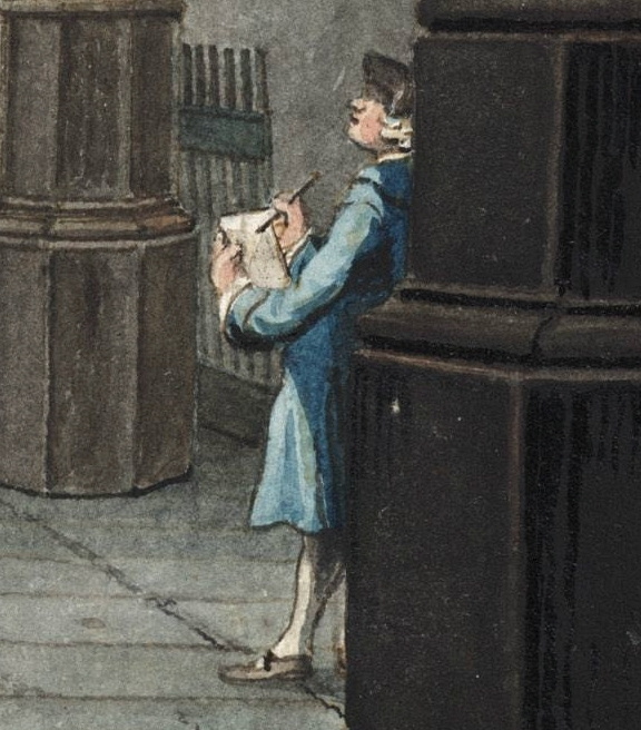 Detail with the artist Jan Schouten (1716-1792). Detail of image